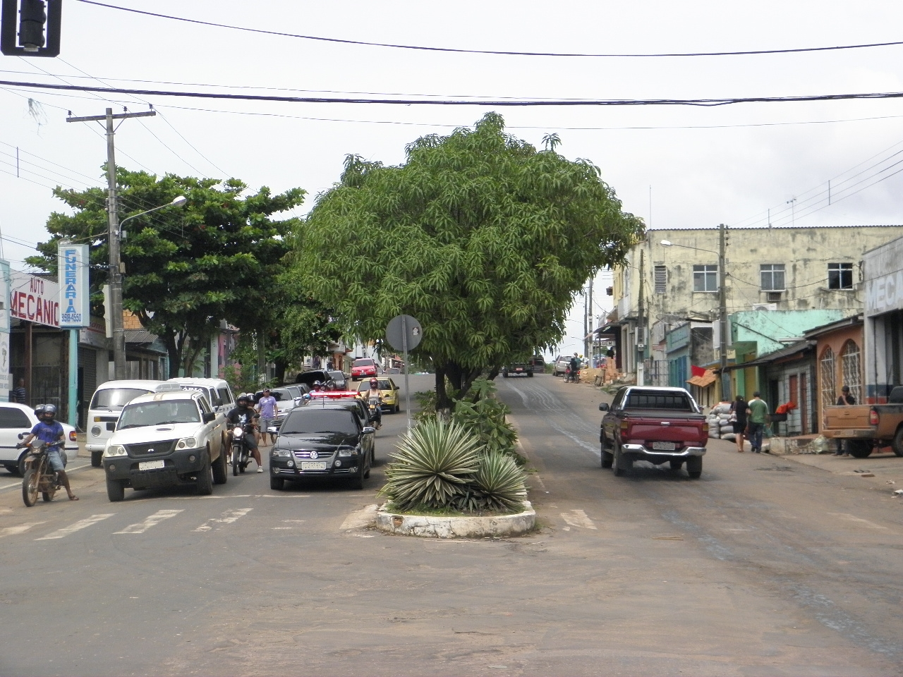 Área Urbana (4) de Itaituba